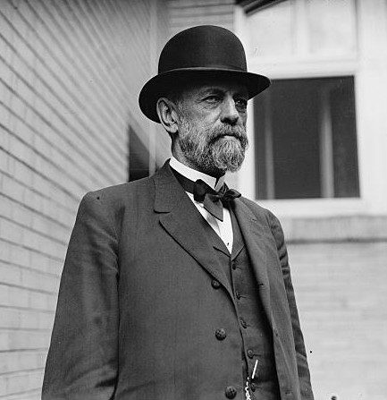 Richard Franklin Pettigrew (1848 - 1926), American lawyer, surveyor, South Dakota's first Senator in the United States Senate